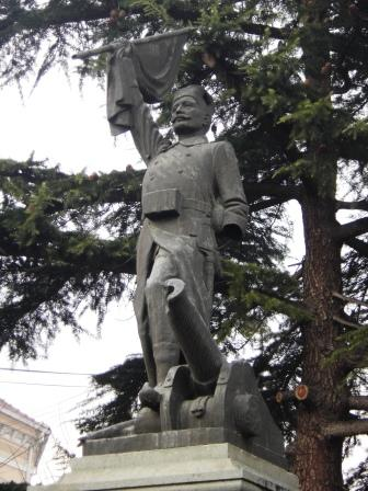 "Čika Mitke", Monument to the Liberators of Vranje